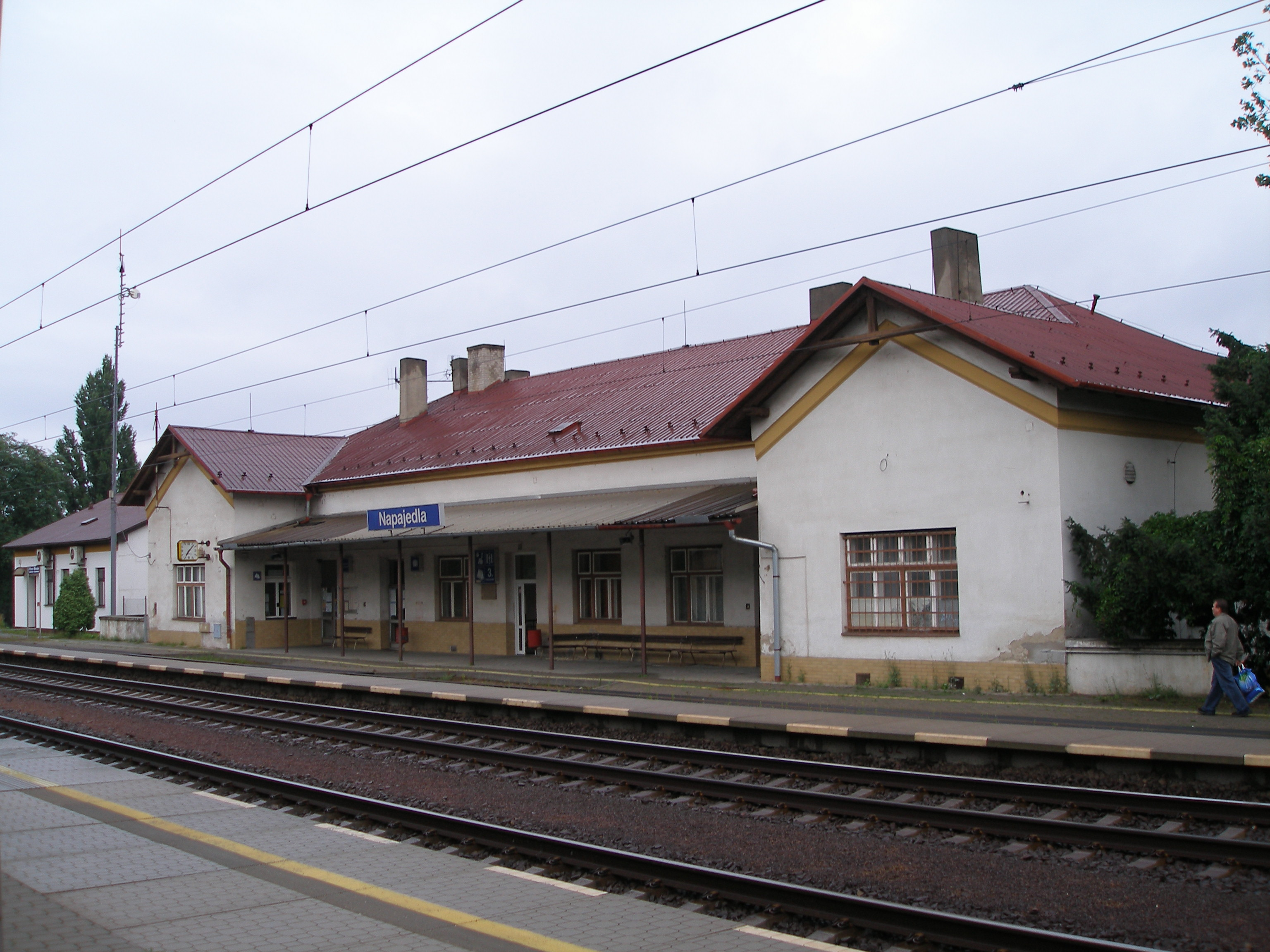 Napajedla, railway station